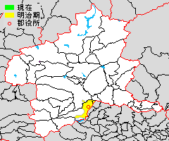 Map showing extent of former Midono District, Gunma, Japan